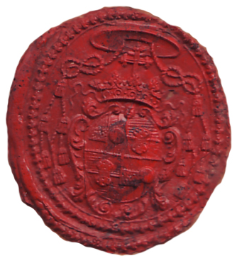 Franz Ferdinand Khünburg, bishop of Lublin 1710-1710 and archbishop of Prague 1713-1731